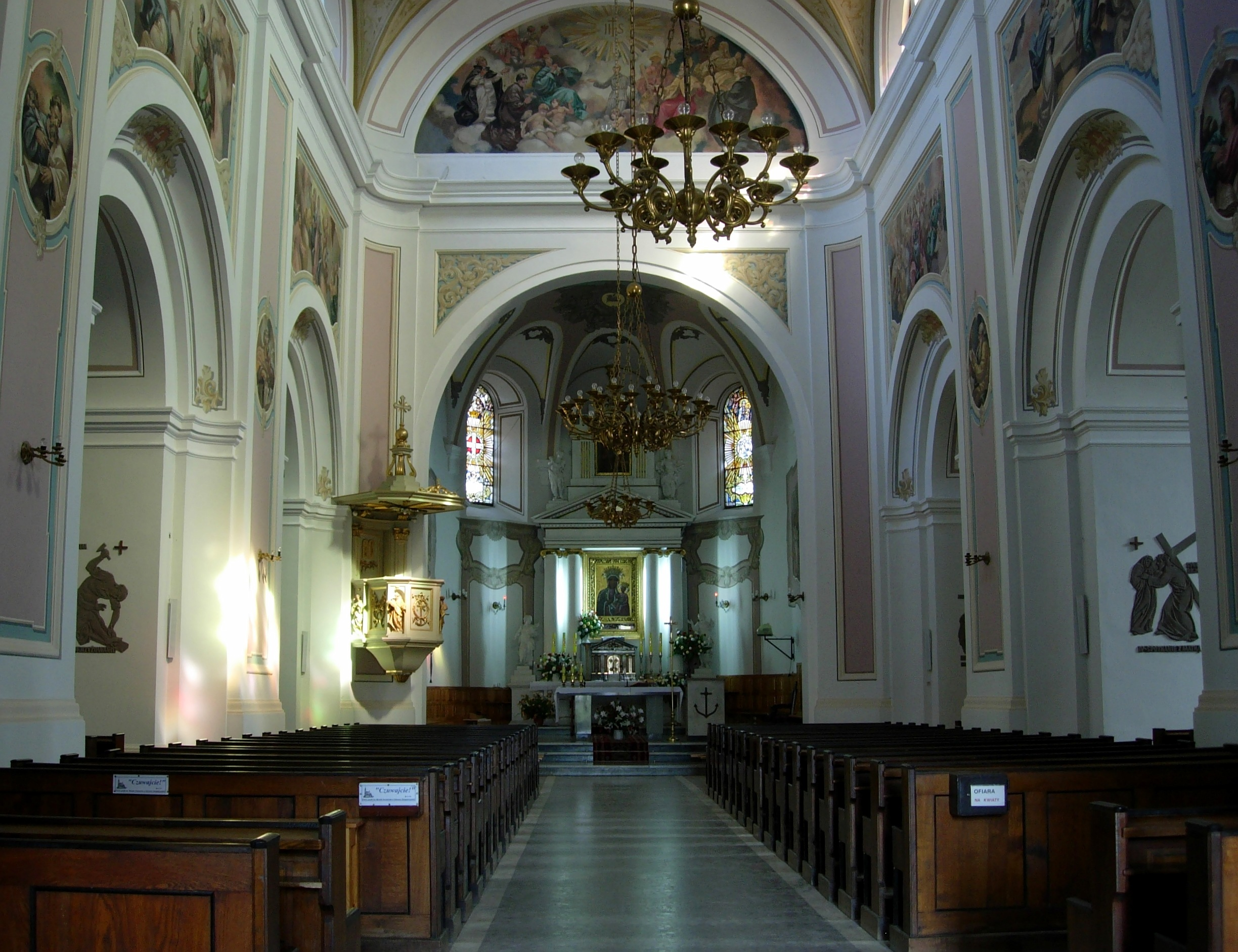 The inside of St.Michael Church in Ostrowiec Świętokrzyski, Poland